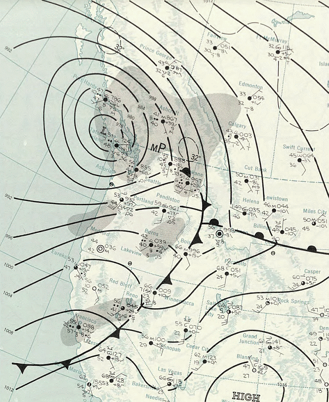 Surface weather analysis of the Columbus Day Storm on 13 October 1962.